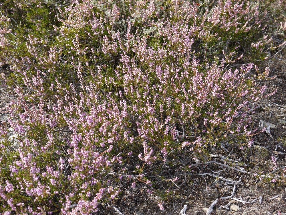 Heather in Cueto Rosales, Riello (Spain)